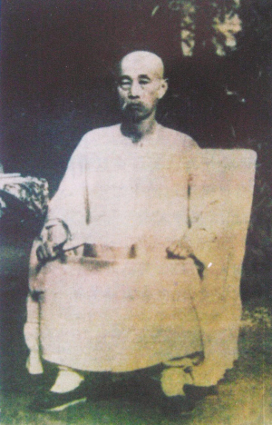 Wu Rulun, Chinese scholar of the late Qing Dynasty.